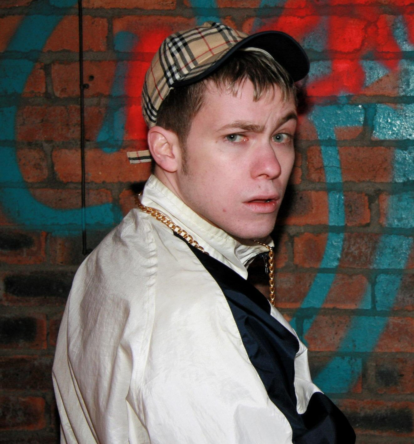 Glaswegian comedian Neil Bratchpiece dressed in character as "The Wee Man" - a "ned"/"scally"/"chav".